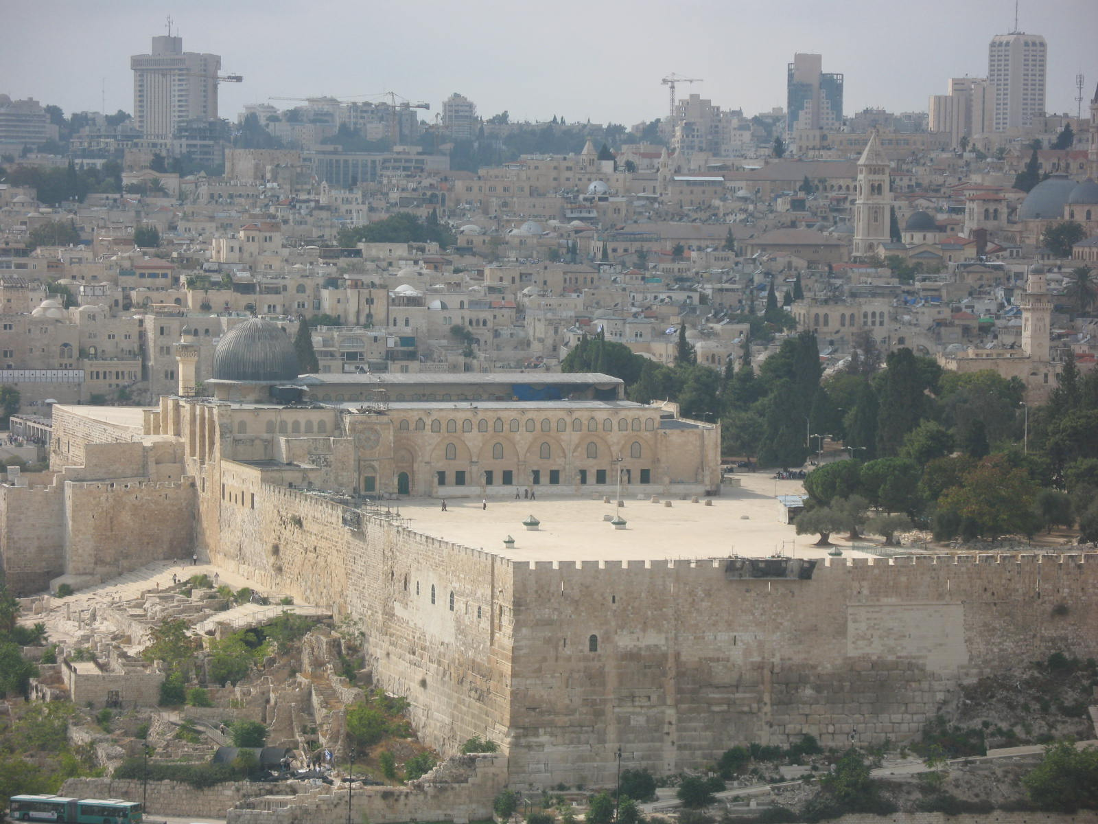 part of Al-Aqsa Mosque